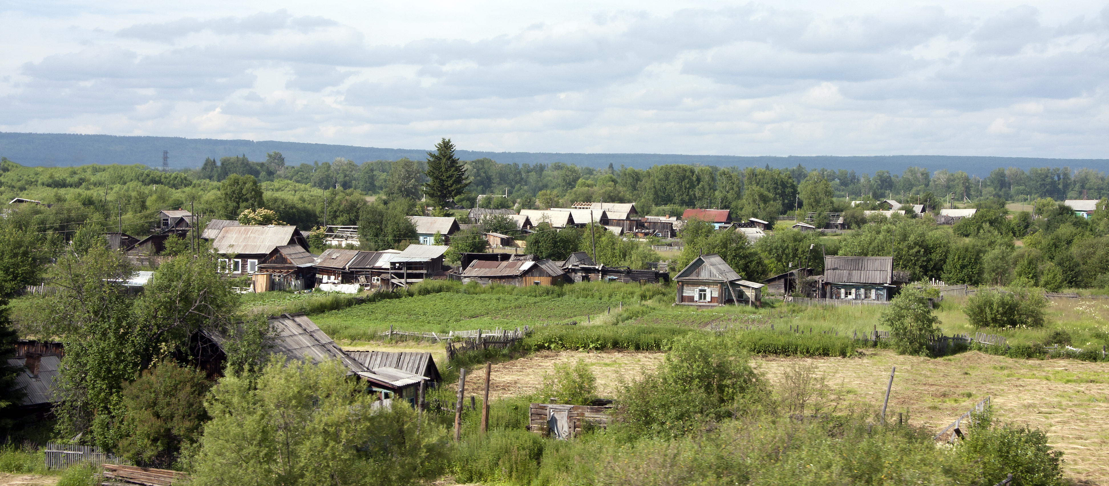 Northern outskirts of Russian town Biryusinsk seen from the Transsiberian Railway.